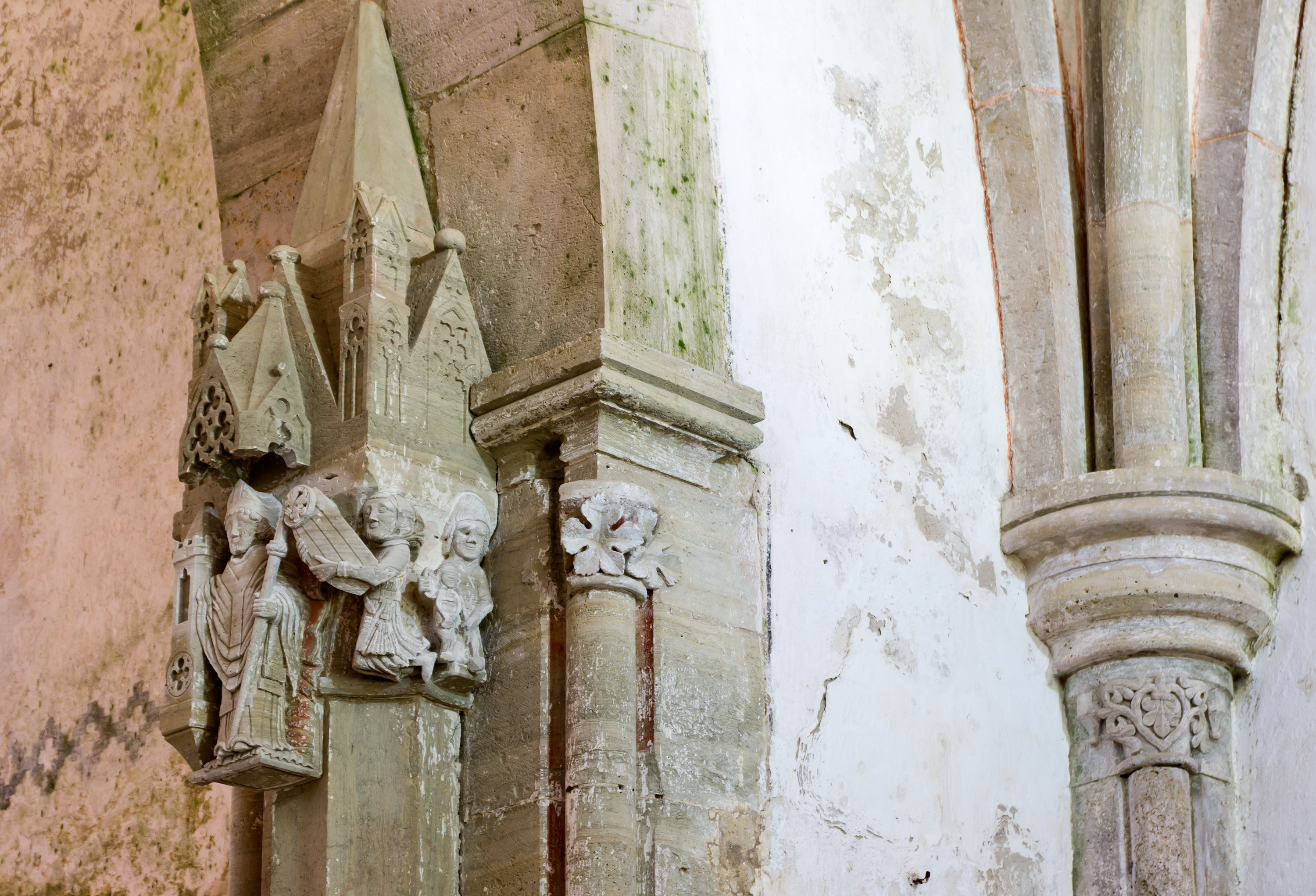 St Nicholas' group on the south side of chancel arch in Karja church. View from west.